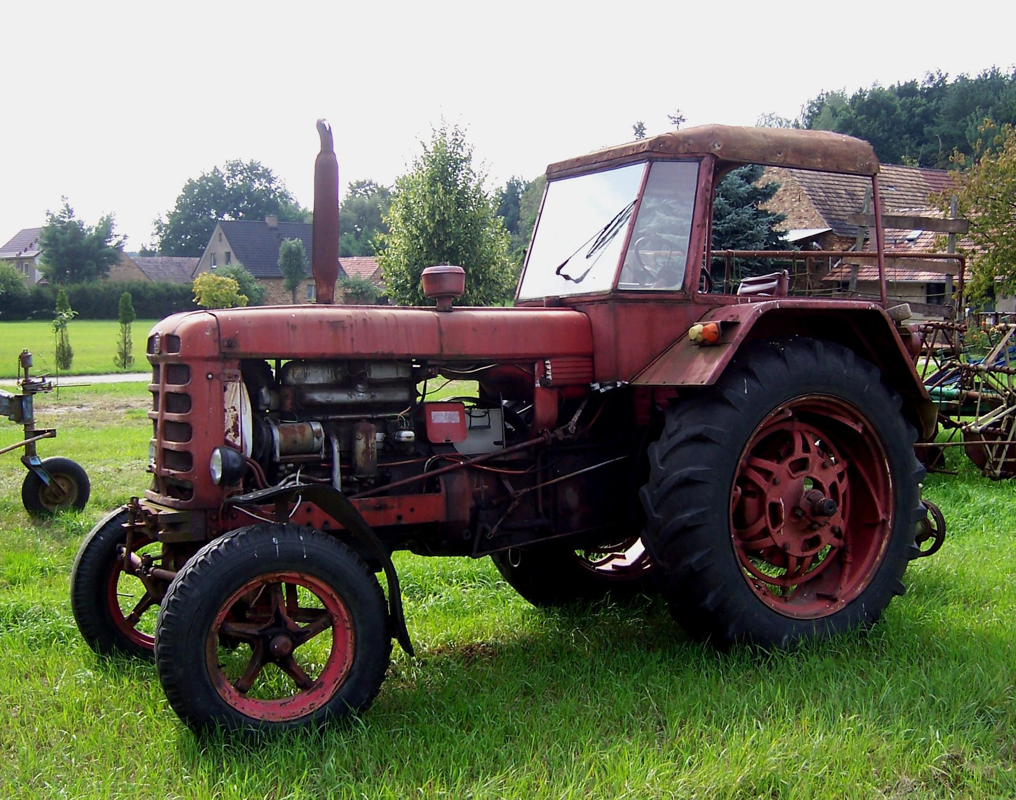 Tractor UTB Universal 650